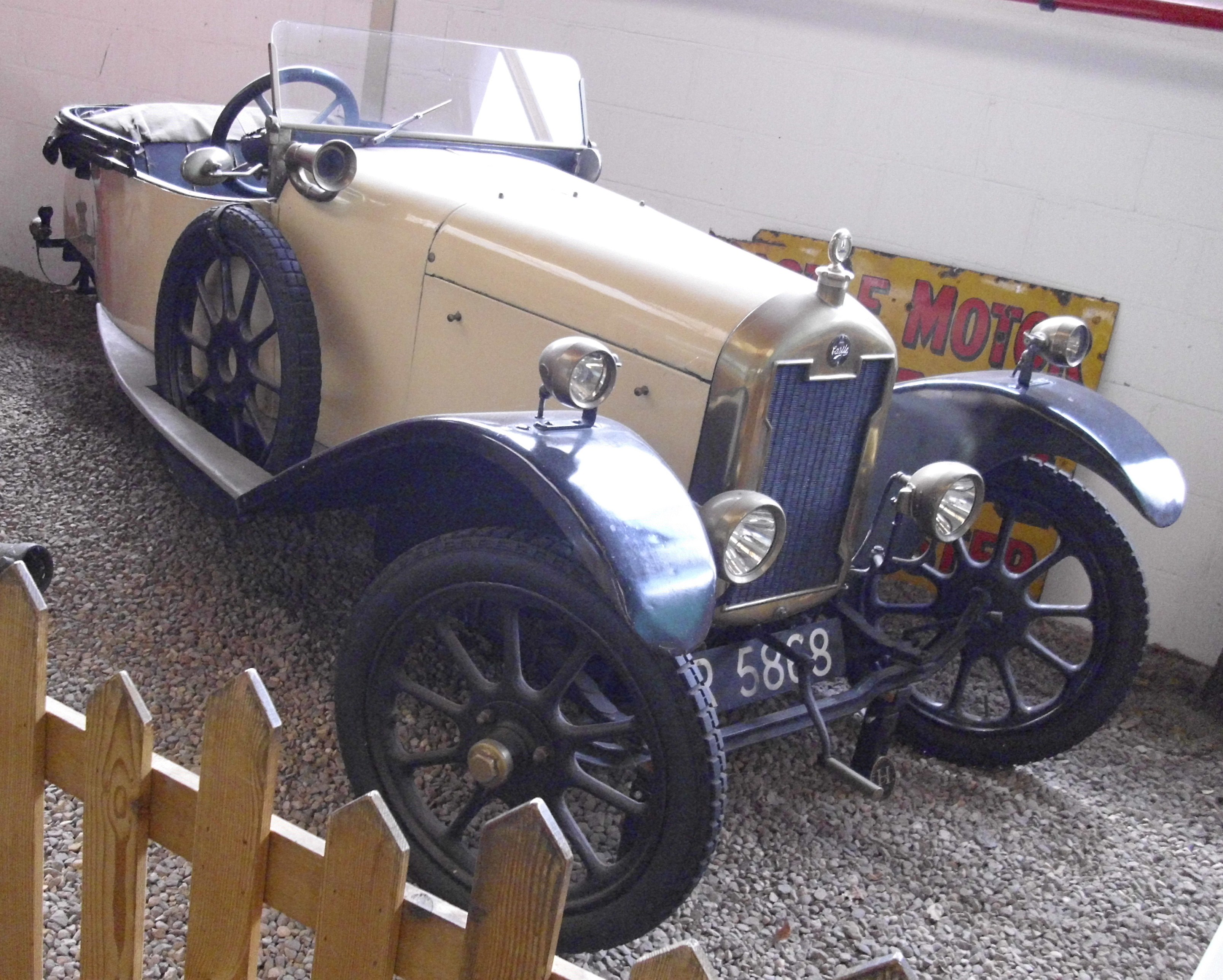 Castle Three 10 HP 1921